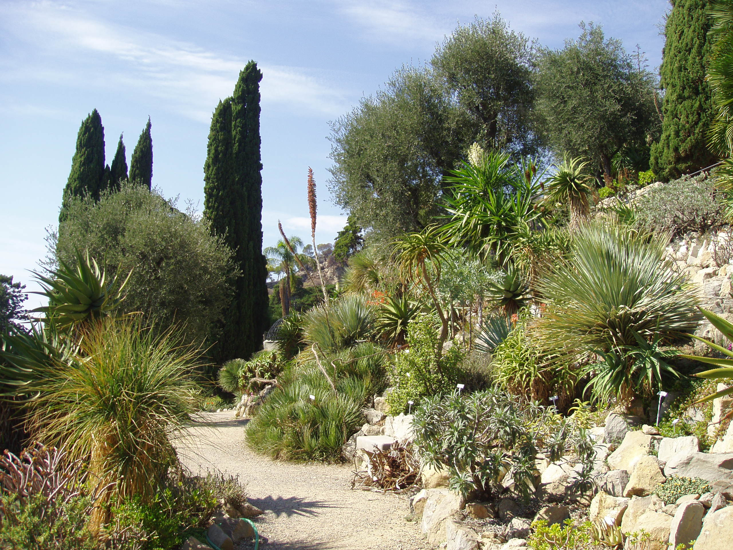 Giardini Botanici Hanbury - general view. Mortola Inferiore, several km west of Ventimiglia, Italy.